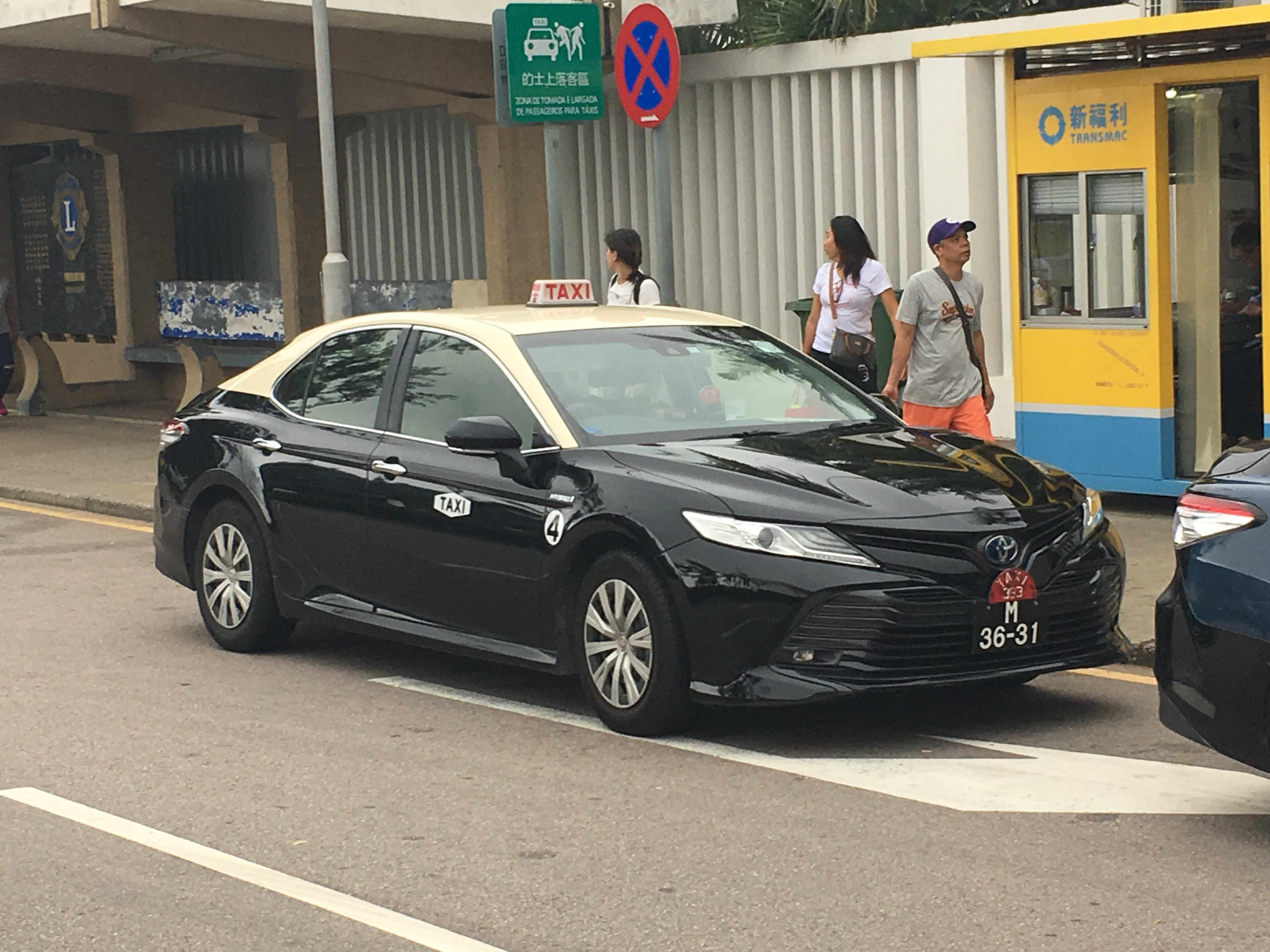 中文（香港）: This photo is taken in Hak Sha Beach.